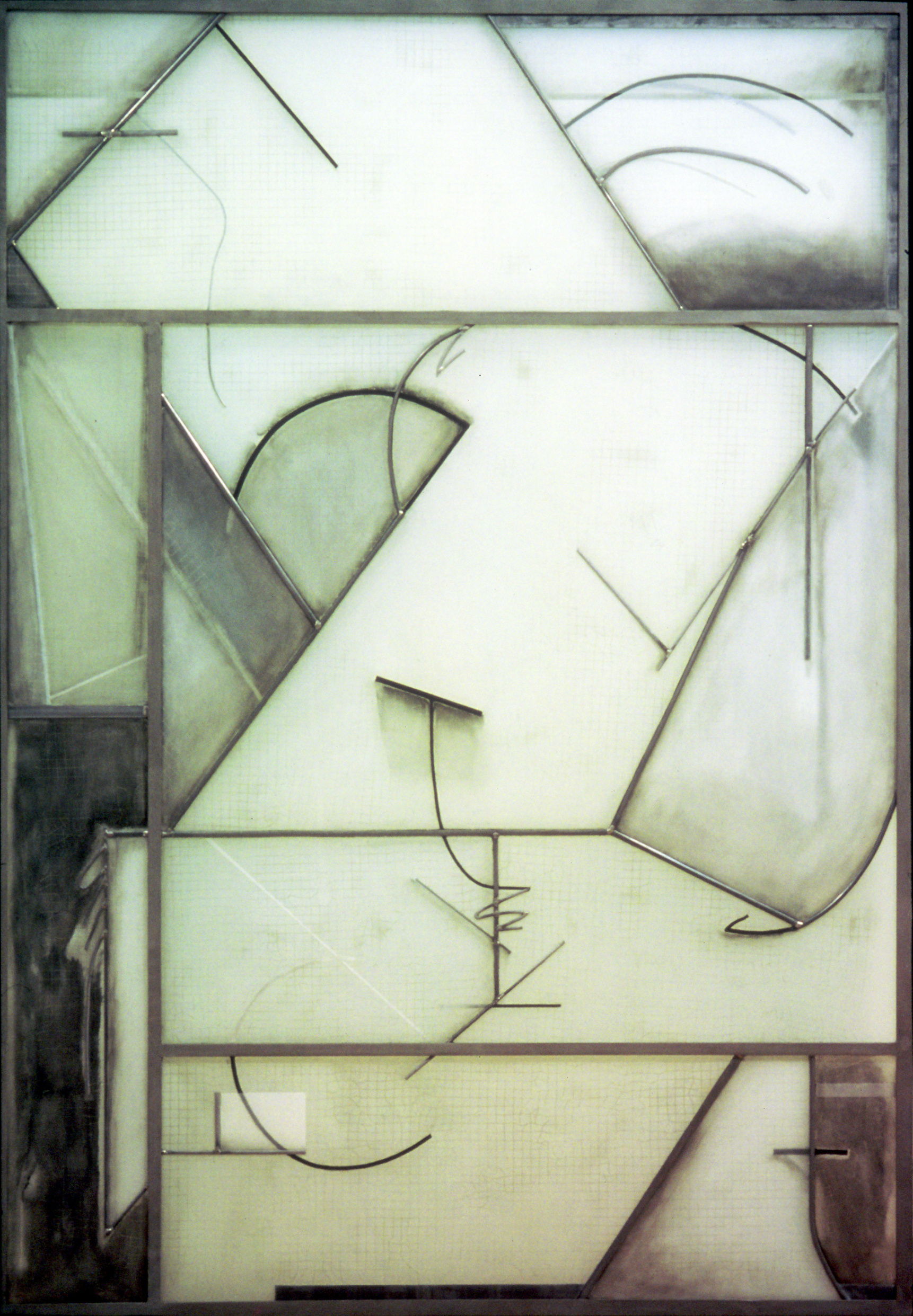 “Quartet” — by Robert Kehlmann (1979). Leaded glass panel. Private collection, San Francisco. Photo: Richard Sargent (date: 1980), Kehlmann Studio Archive.